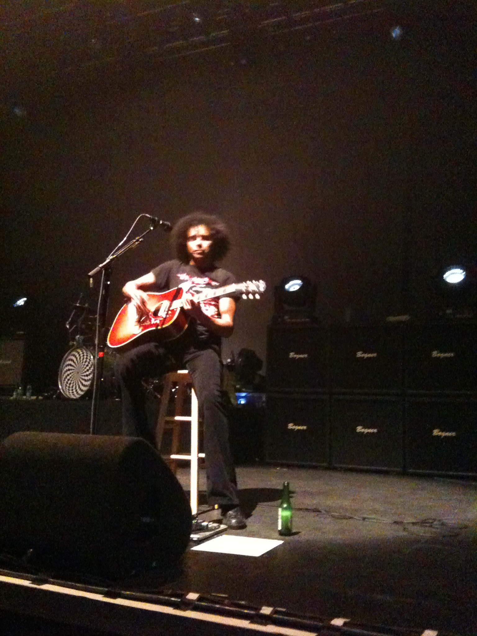 William DuVall live 2009